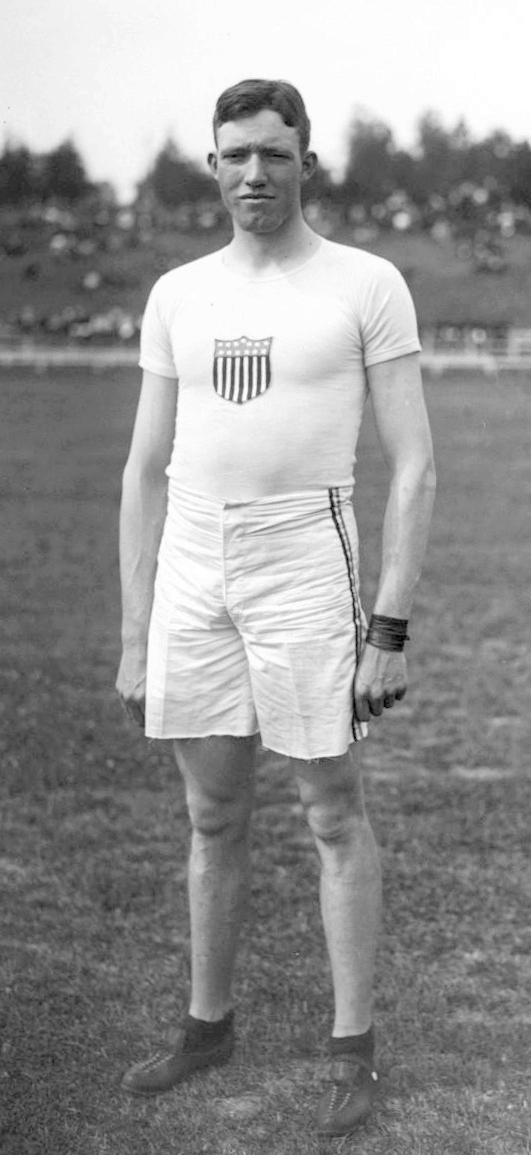 Photograph of Alma Richards at the Inter-Allied Games [?]